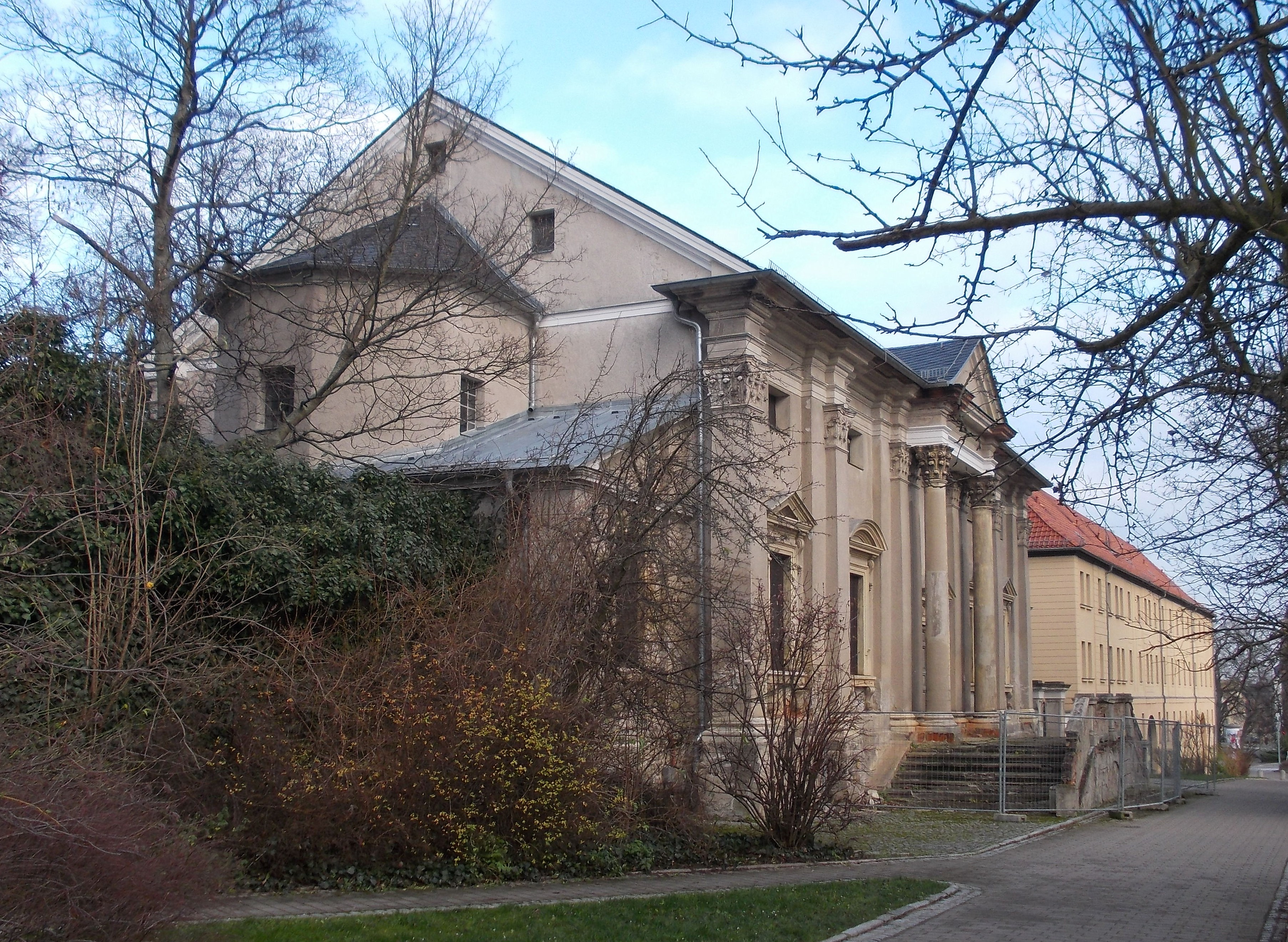 Cemetery church in Altenburg (Thuringia)